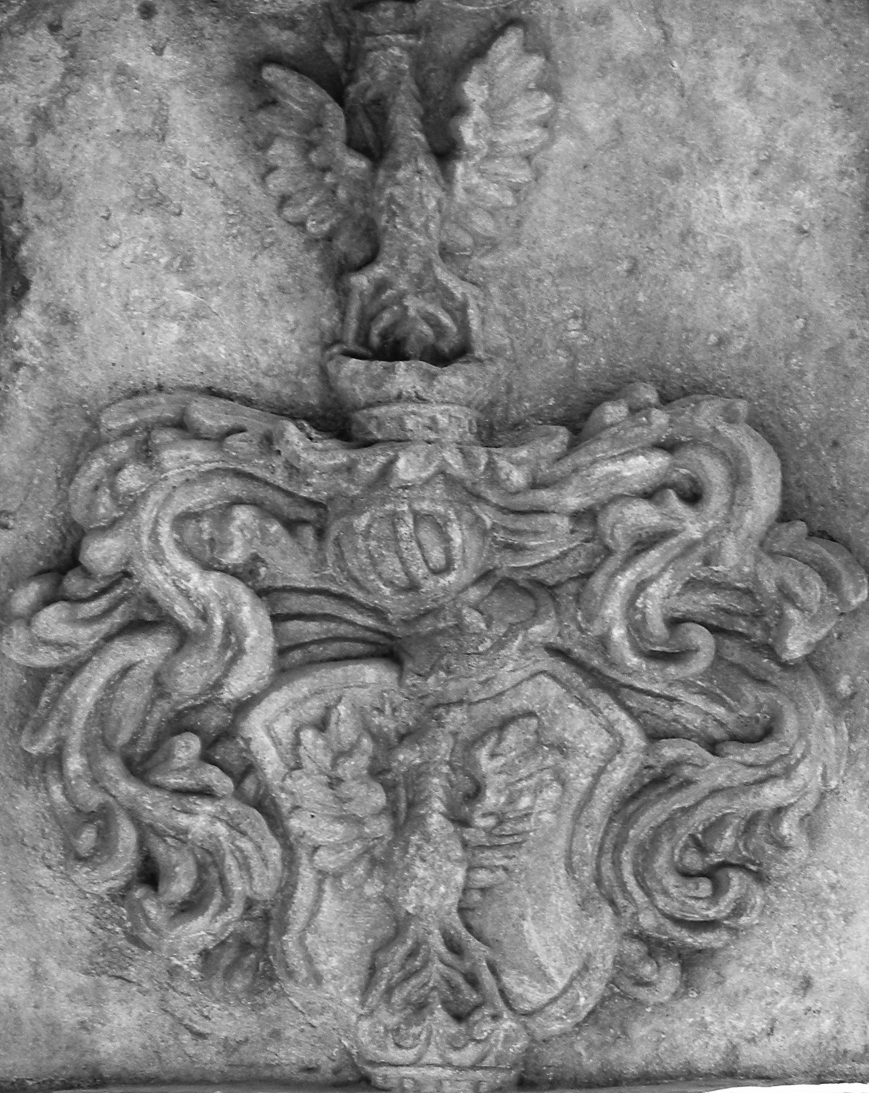 Coat of arms of Miklós Illésházy. Pestillance column, Trenčín.